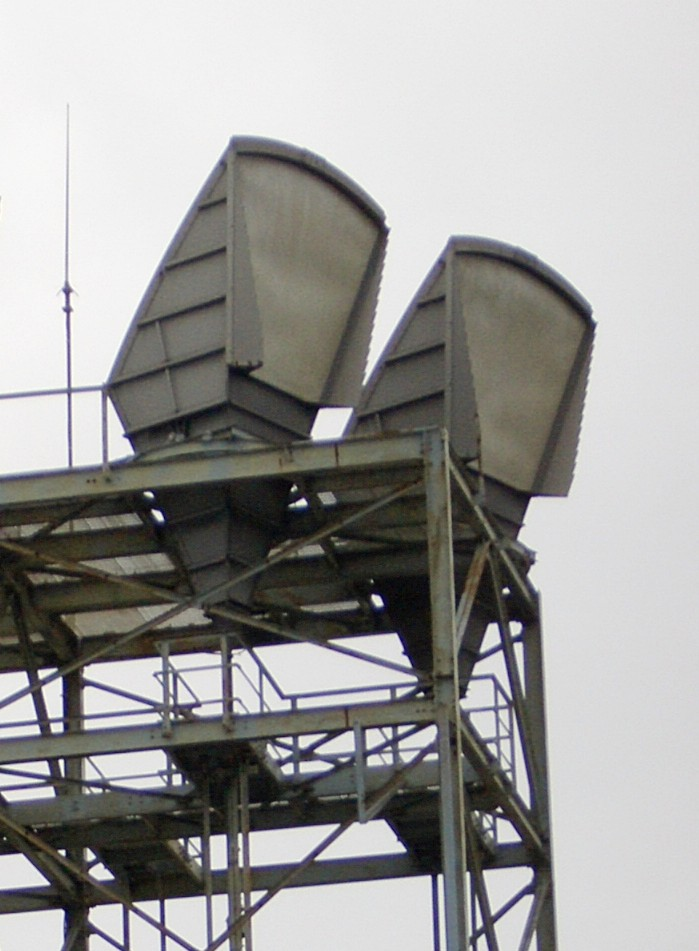 Microwave horn antennas on the roof of a telephone switching center near Madison St. and 17th Ave, Capitol Hill, Seattle, Washington state, USA. This is part of the TD-2 AT&T Long Lines microwave relay system, created in 1955 to relay telephone calls, television shows, and other data from point to point in the US. The system uses C-band frequencies in two bands at 4 and 6 GHz. This type of antenna is called a Hogg or horn-reflector antenna, invented by Albert Beck and Harald Friis in 1941 and developed at Bell Labs in the 1950s. They consist of a vertical flaring metal horn fed with a 2.8 in. circular waveguide, with a reflector mounted in the mouth at a 45° angle, so the beam of microwaves is emitted horizontally (the aperture of these antennas, facing right, is covered by a plastic sheet to keep out rain). The reflector is a segment of a parabolic reflector, so the antenna is equivalent to a parabolic antenna fed off-axis. The advantage of this type of antenna over an ordinary parabolic (dish) antenna is that it has very small sidelobes; that is it picks up very little radiation from directions outside its main beam axis. This allows the same microwave frequencies to be used by several nearby antennas without interfering with each other. These AT&T model KS-15676 L9 antennas have a gain of about 43 dBi and produce a beamwidth (HPBW) of about 1° at 6 GHz. Backlobe sensitivity is -60 to -80 dBi. (From KS-15676 Horn Reflector Antenna Description, Bell System standards, AT&T Also: Bell Labs Record Nov 1955) Microwave links like this use 2 antennas (one transmitting and one receiving) to send a beam of microwaves of a few watts power to a similar station about 30 miles away. Each antenna can carry tens of thousands of telephone calls.